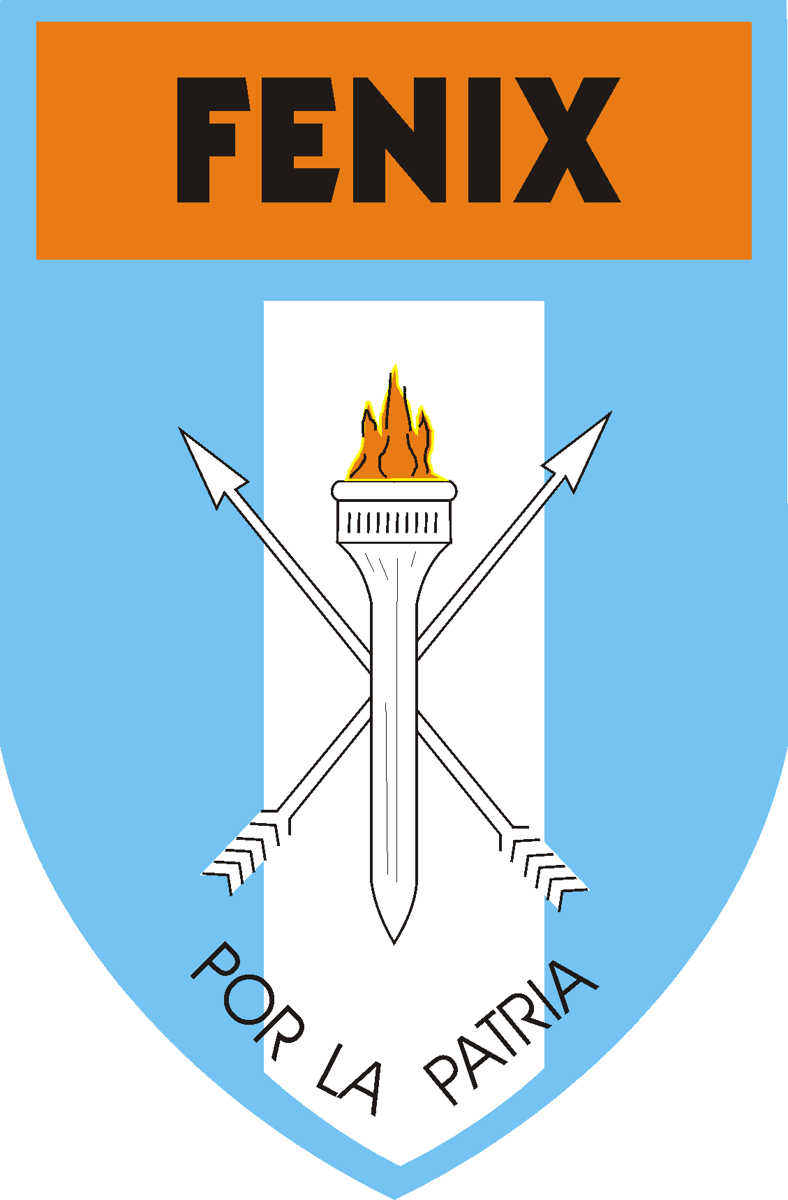 Coat of Arms of The Escuadron Fenix, argentine air unit during the Falklands/Malvinas War (1982)